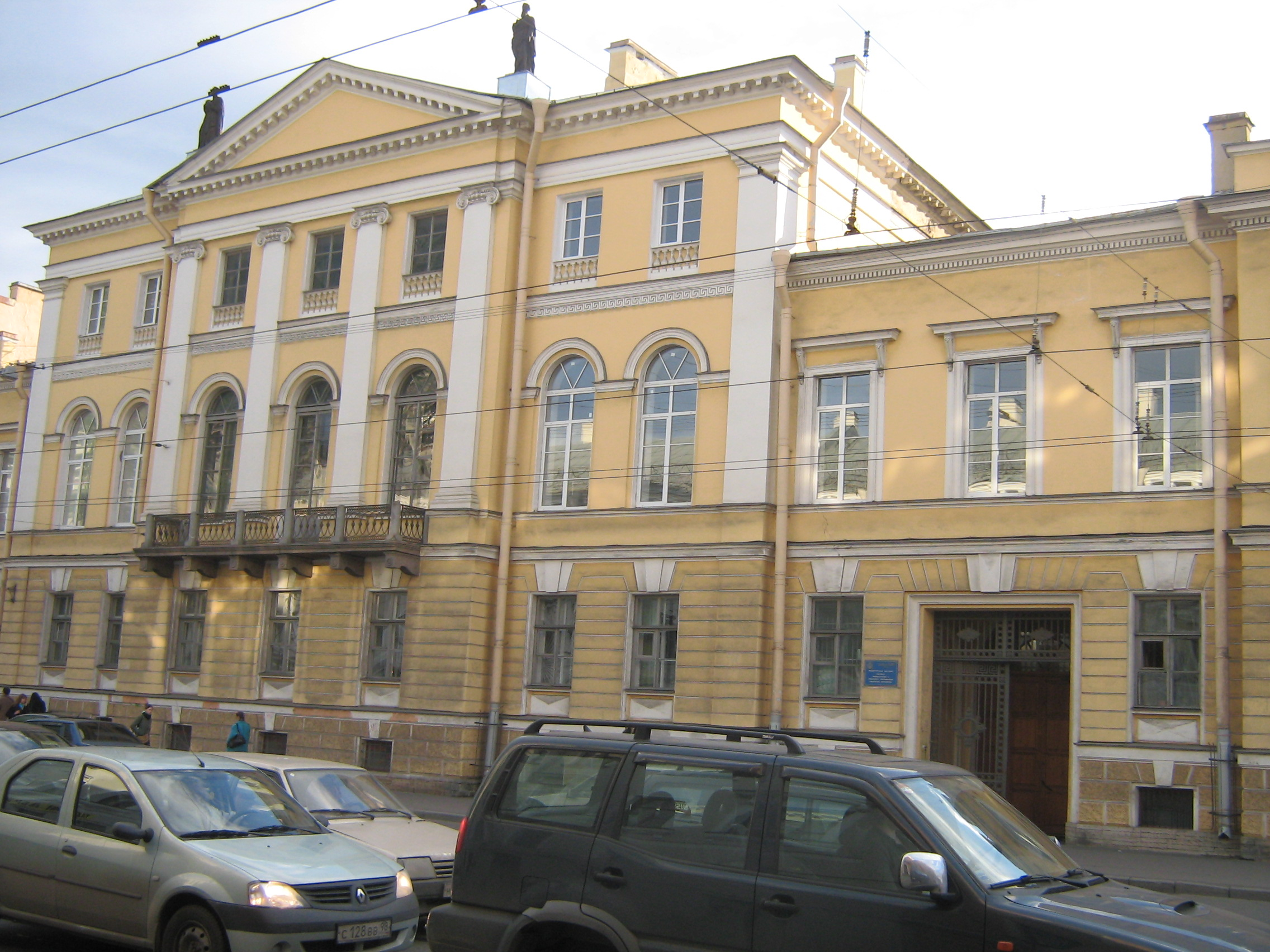 Saint Petersburg (Russia), Vasilievsky Island.